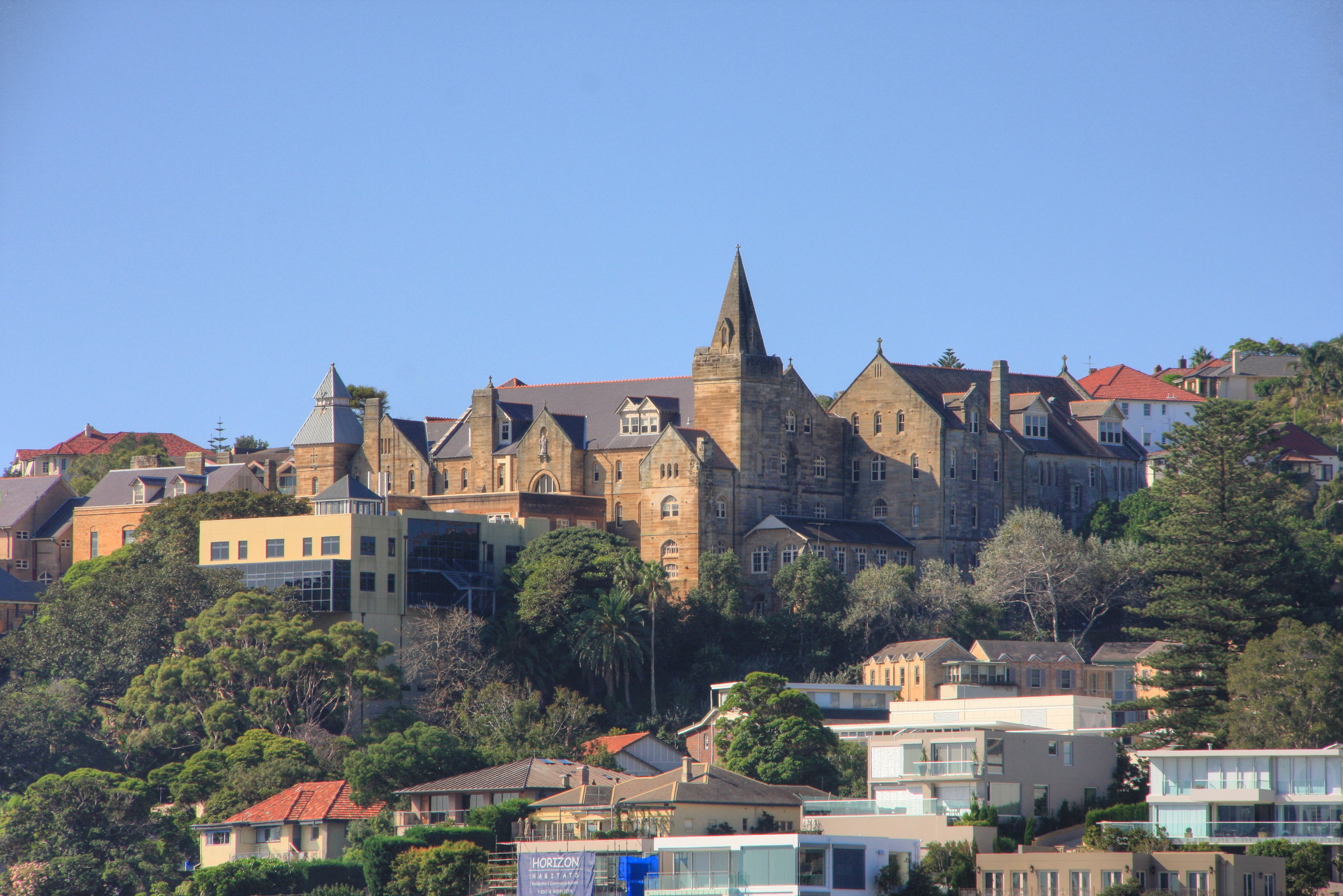 Kincoppal-Rose Bay, School of the Sacred Heart (Kincoppal-Rose Bay), is a private, Roman Catholic, day and boarding school predominantly for girls, located in Rose Bay, an eastern suburb of Sydney, New South Wales, Australia.